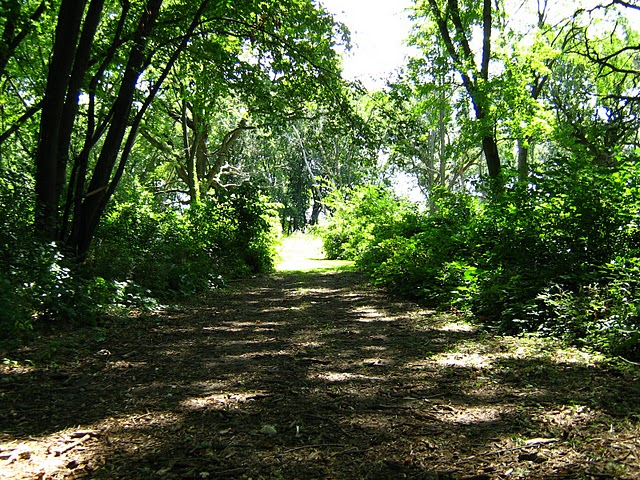 Photographer: Kirk Hrabrich